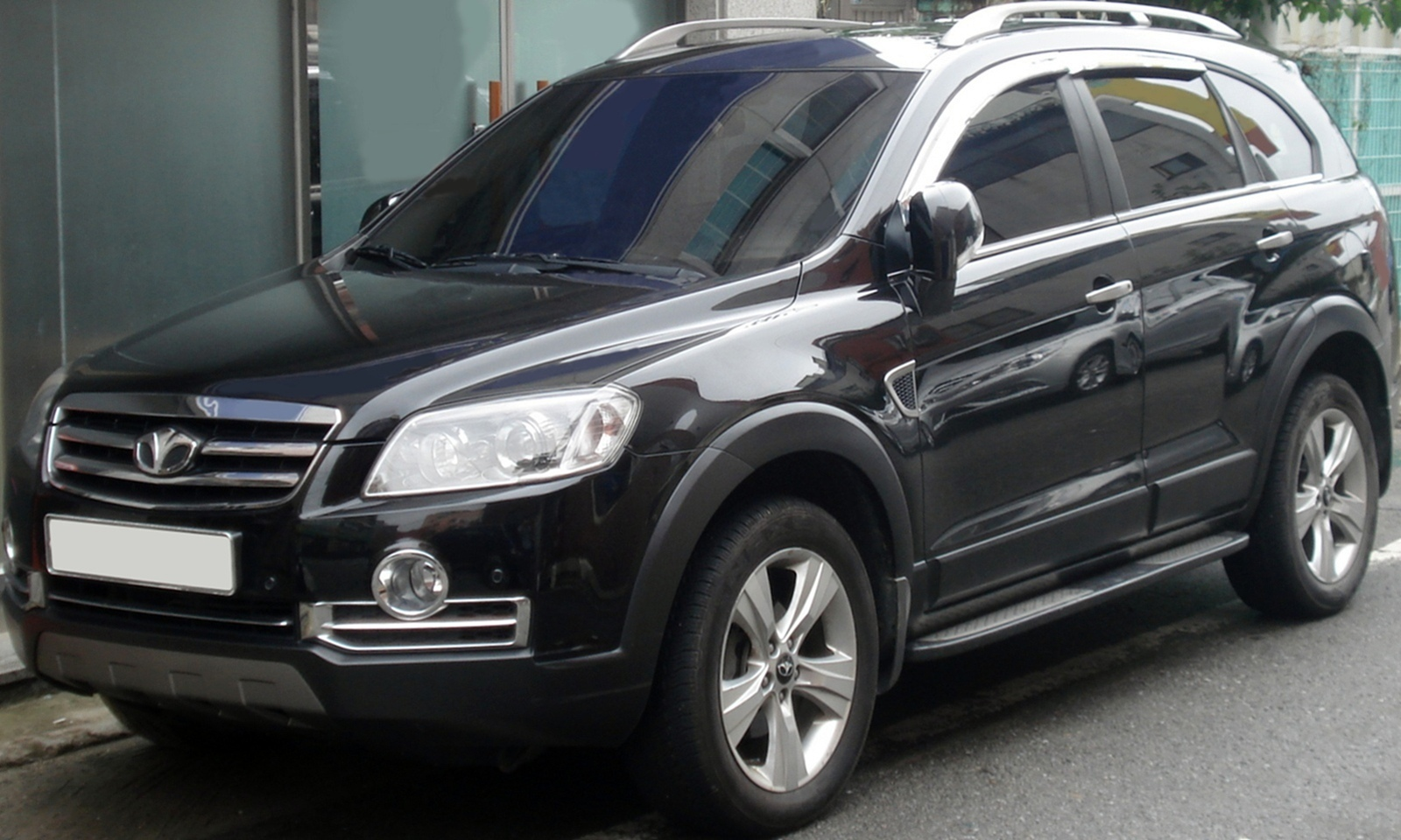 Daewoo Winstorm Xtreme